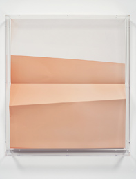 Photo taken in 2006